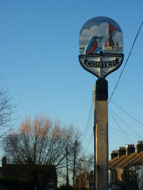 Conyer Village Sign On Conyer Road, before entering the village.